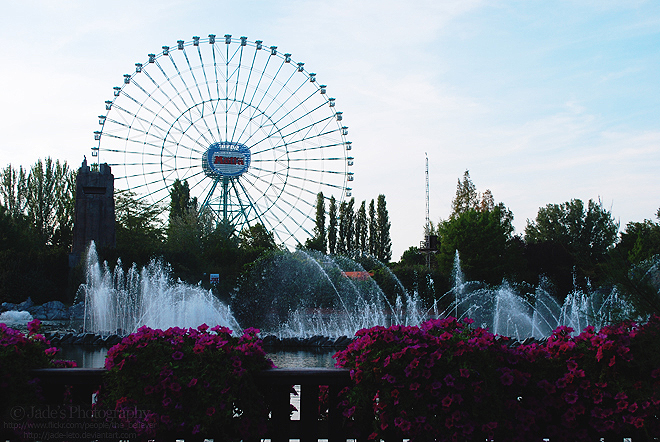 Eurowheel in Mirabilandia, Savio